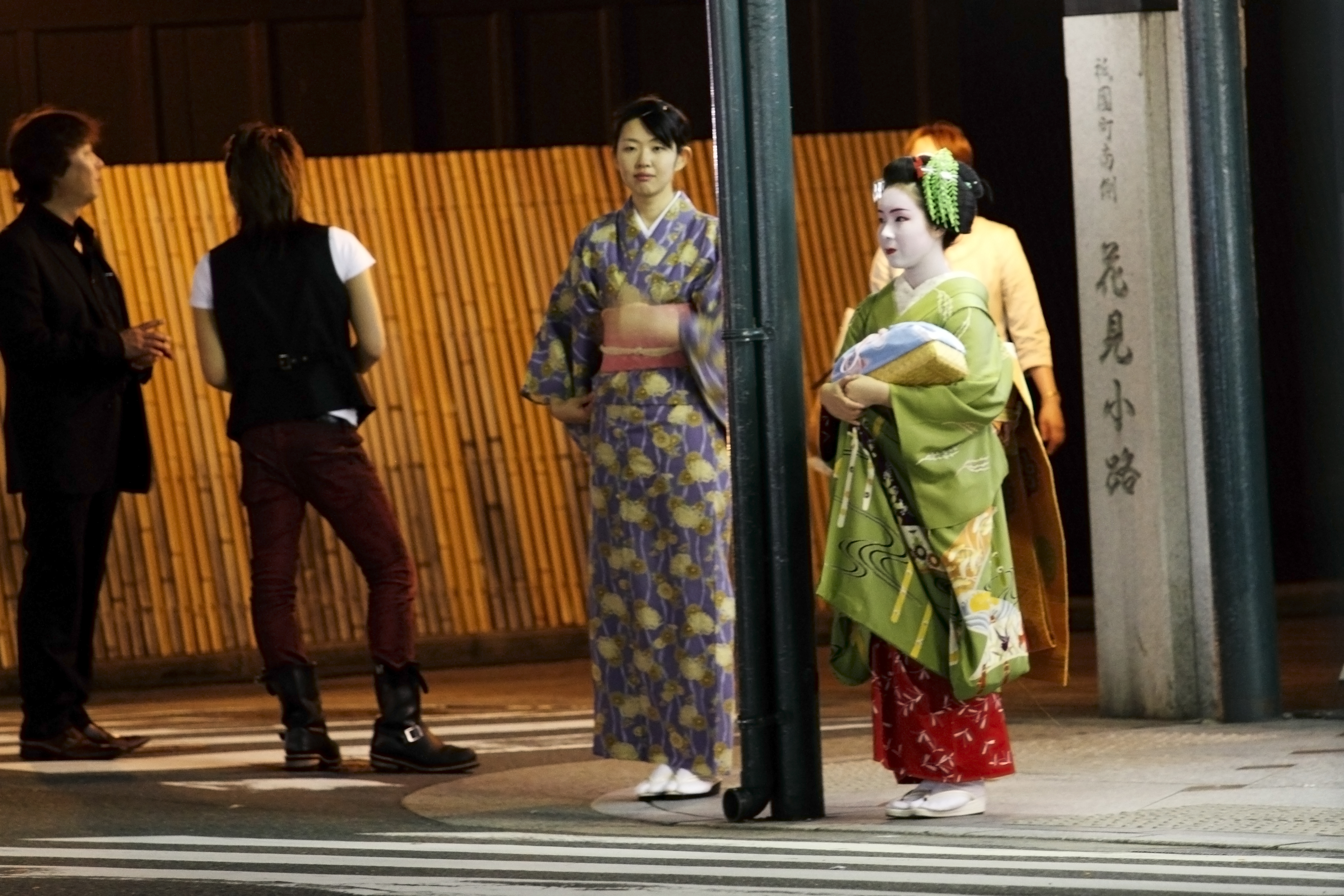 Shikomi (left) is walking along with maiko Takamari. Most likely of Kaida okiya in Gion Kobu.